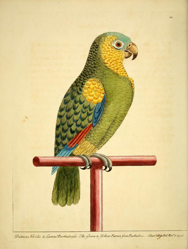 Original illustration of the "Green & Yellow Parrot from Barbados", currently known as Amazona barbadensis